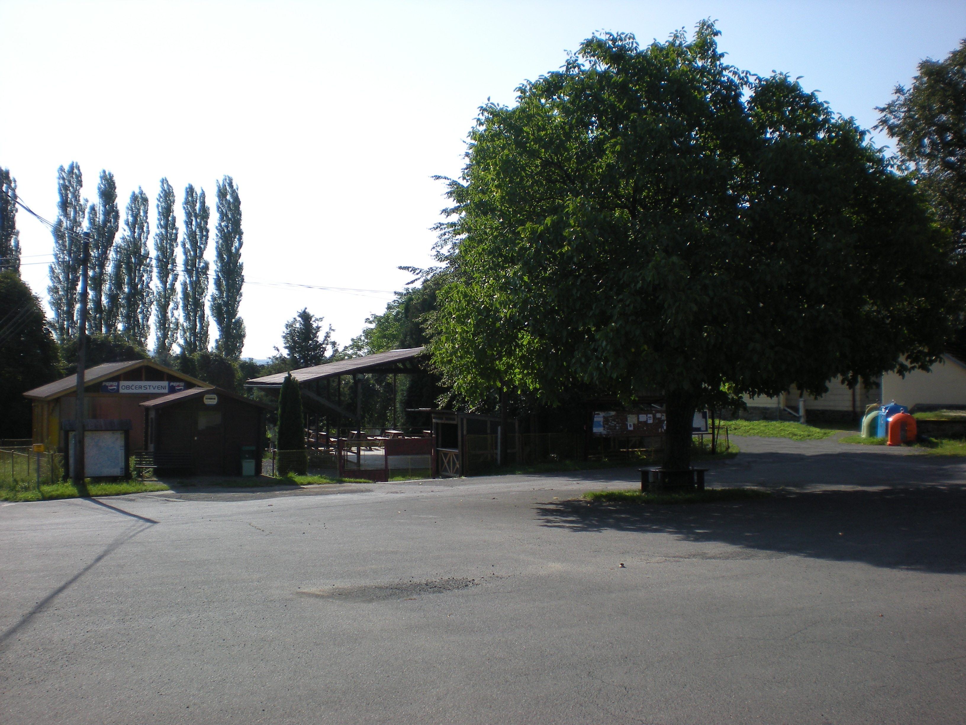 A village green in Snět.